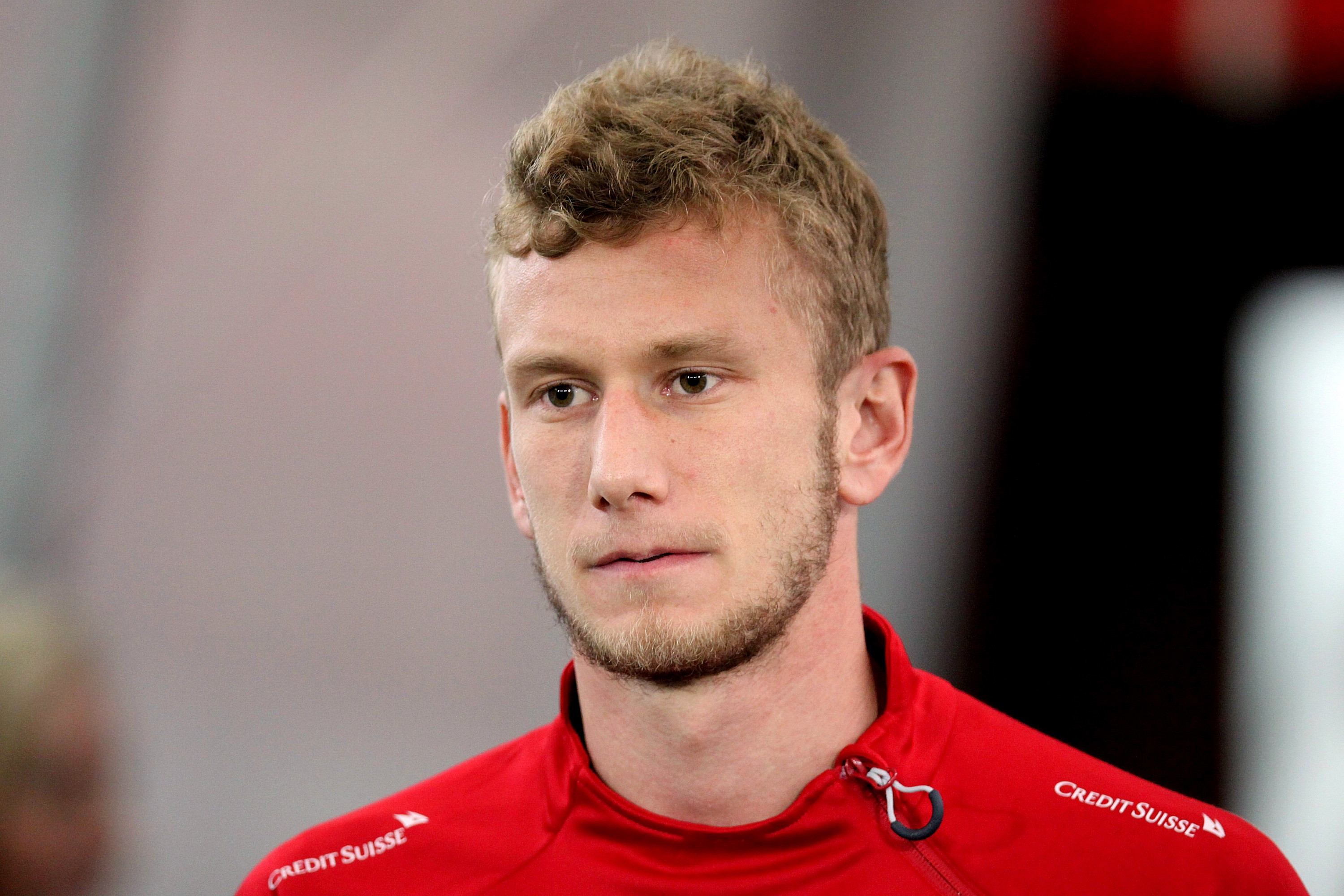 Friendly match – Austria (red shirts) vs. Switzerland (white shirts) 1-2 (1-2) – 2015-11-17 in Vienna, Ernst-Happel-Stadion – The photo shows Fabian Lustenberger (Switzerland).